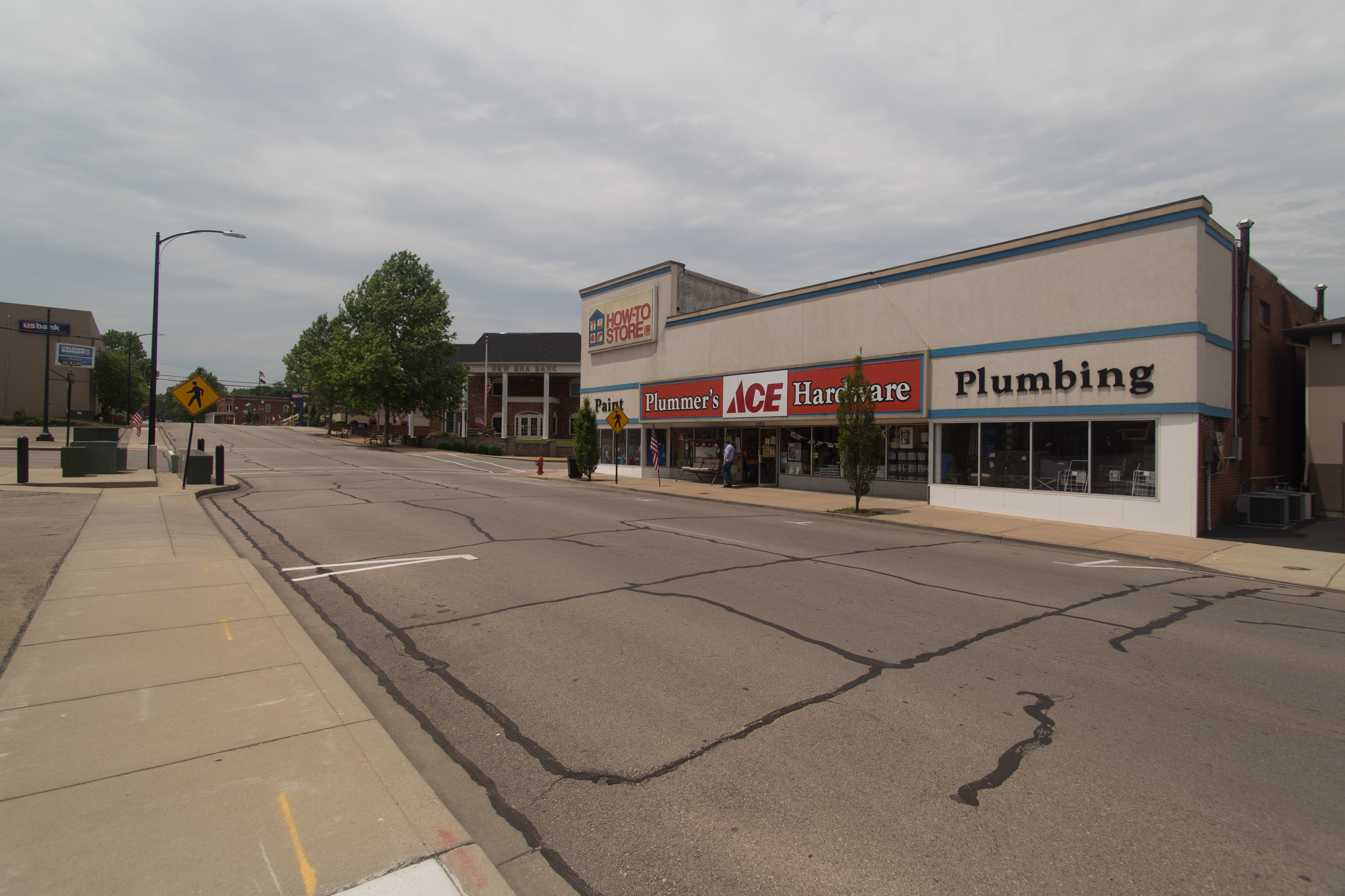 Farmington, Missouri